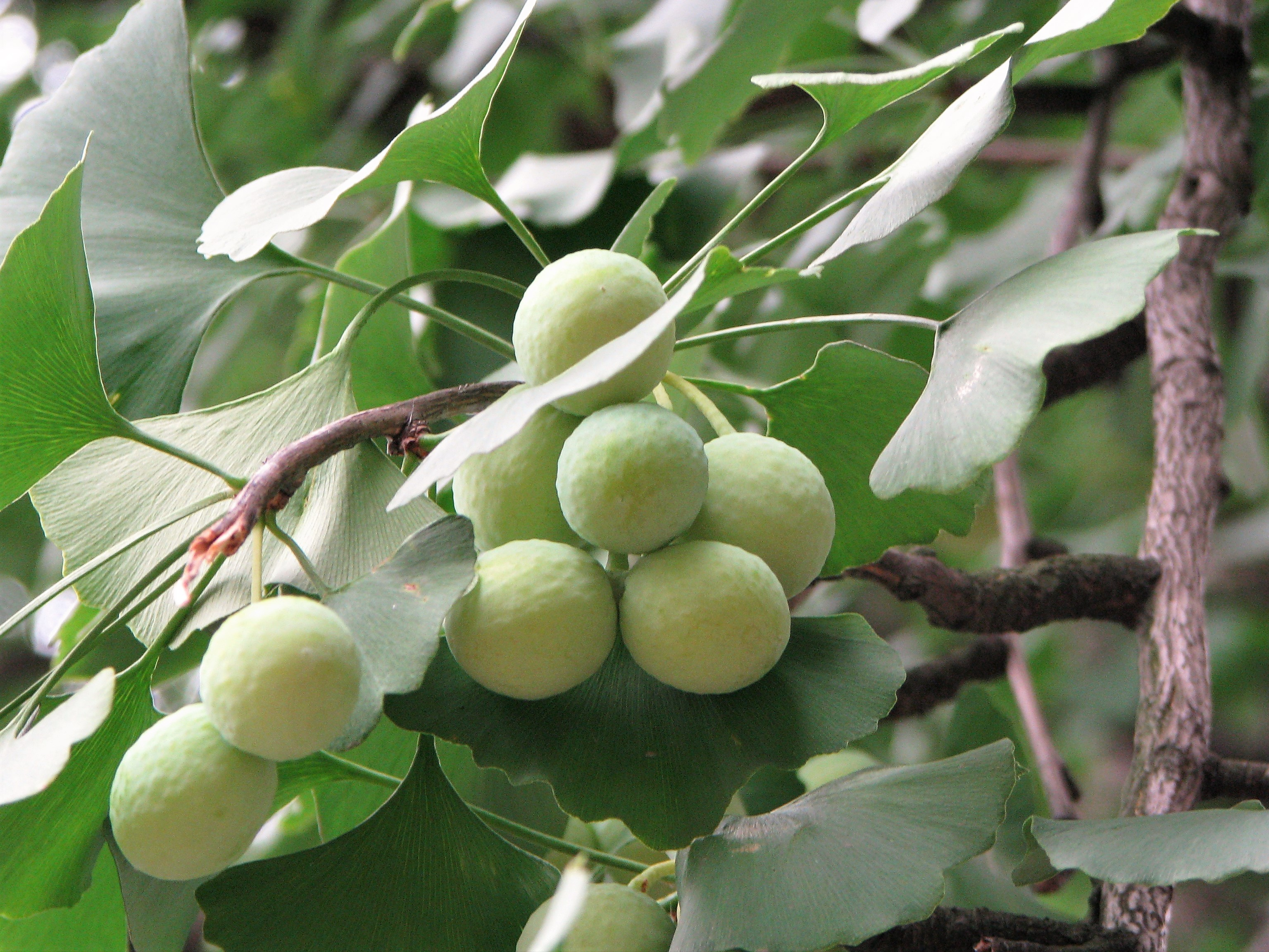 Maidenhair Tree, Ginkgo tree (Ginkgo biloba), fruits, tree cultivated in Wrocław University Botanical Garden, Wrocław, Poland.